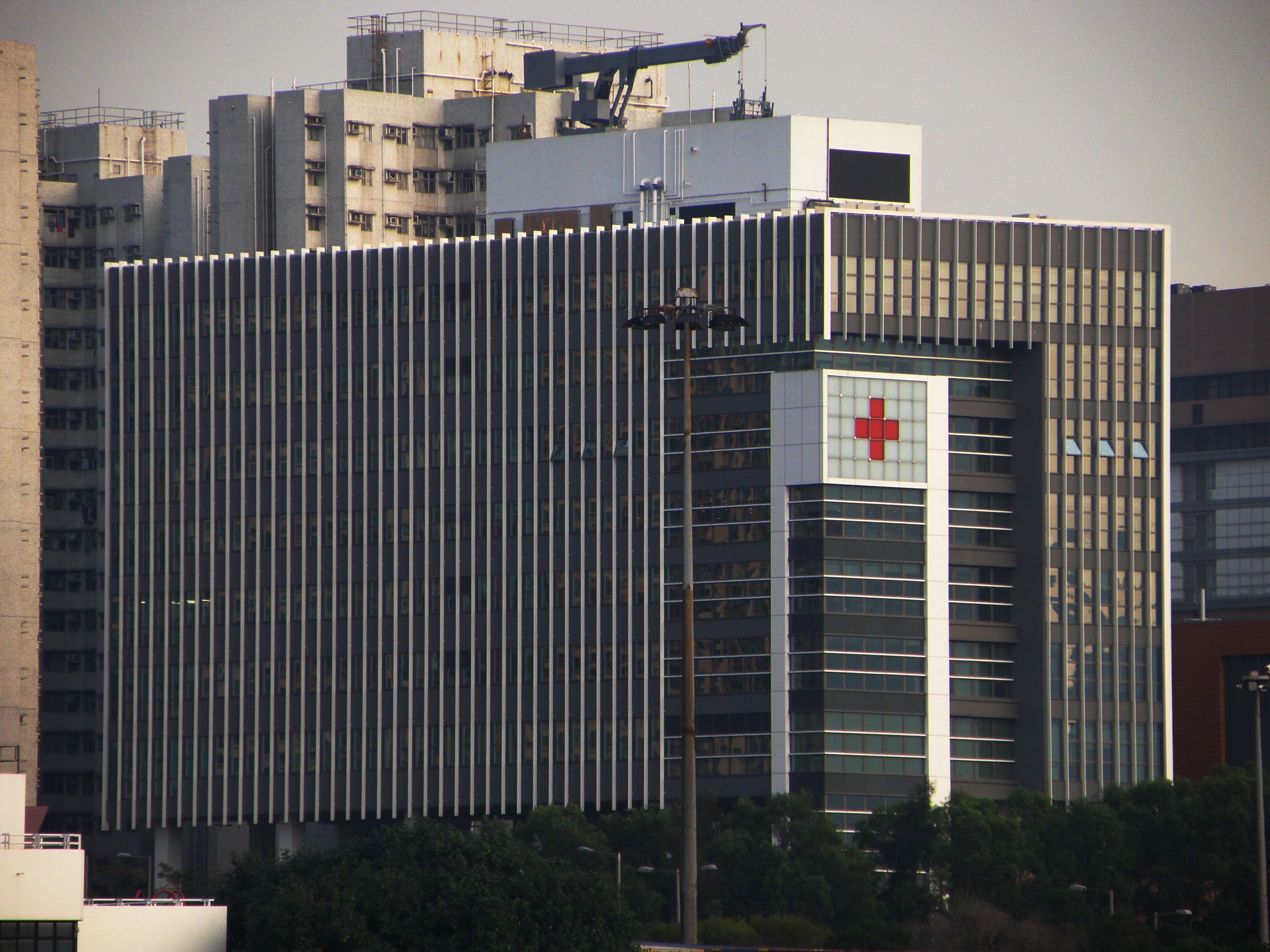 Hong Kong Red Cross Headquarters in Mong Kok, Hong Kong.